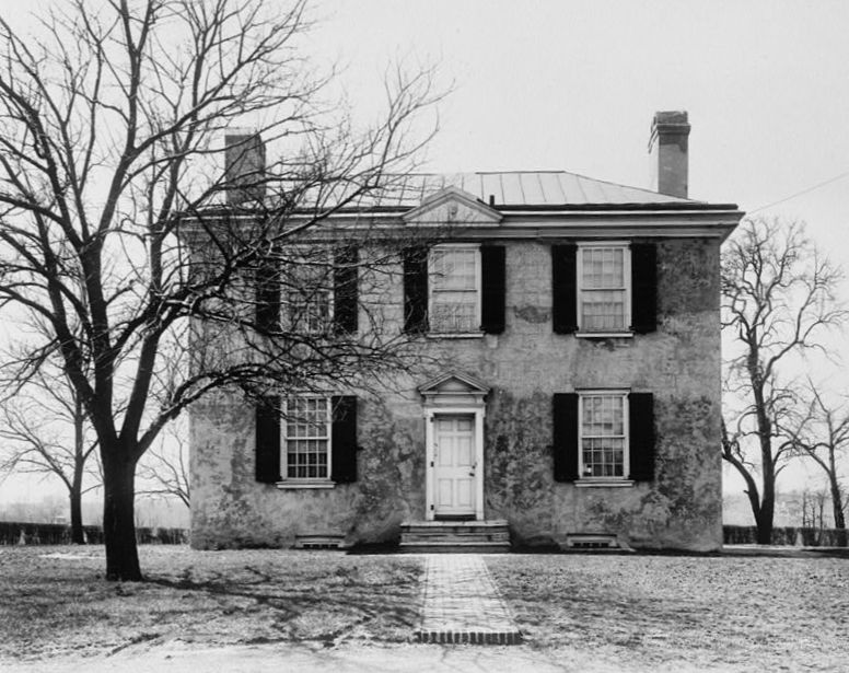 The Cliffs